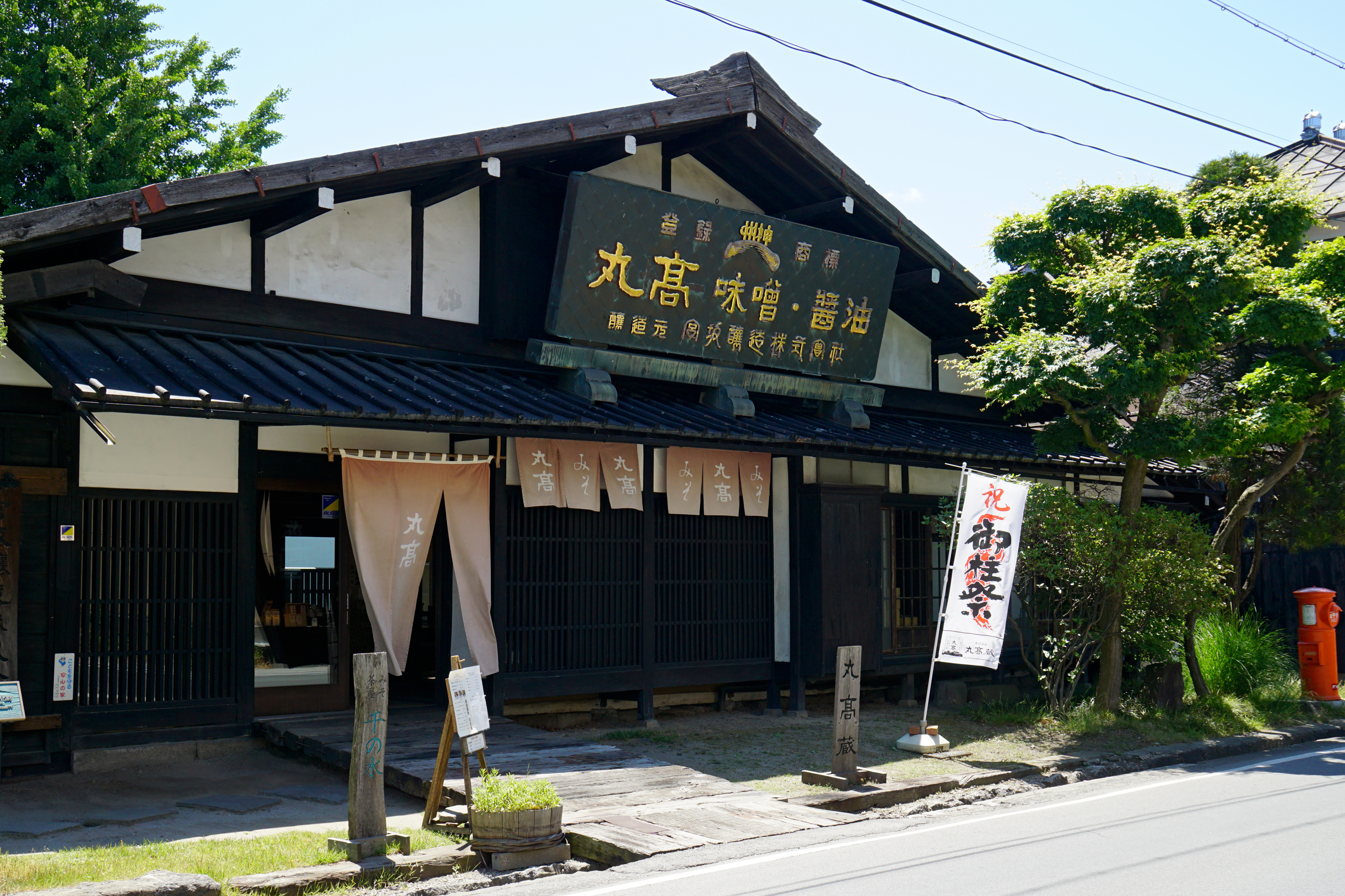 Miyasaka-jozou in Suwa, Nagano prefecture, Japan